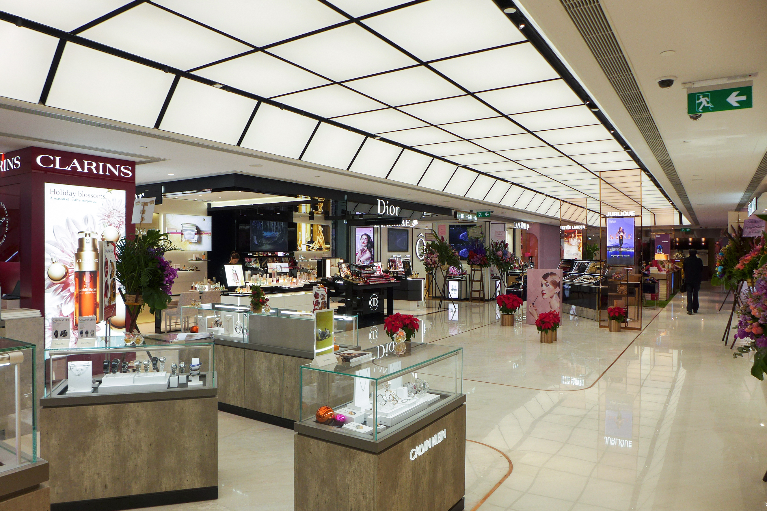 HOTEL VIC Harbour North GF Arcade